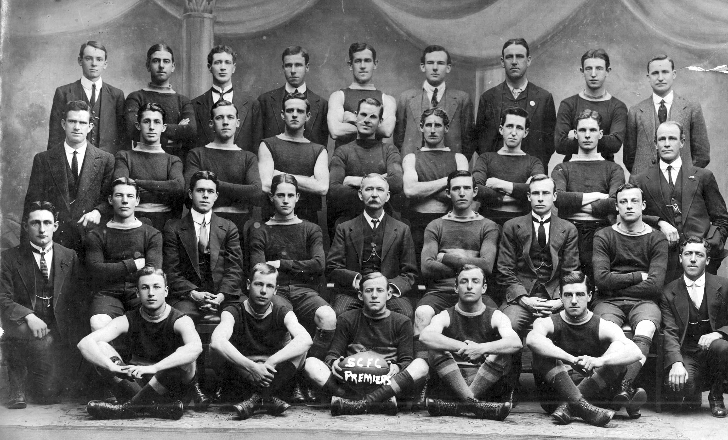 The Semaphore Central FC that won their Premiership in the SAAFL. Back Row: R. Drummond, R.S. Moore, B. Jeanes, J. Dunstone, H.G. McEwen, E.D. Oldfield, S. Cobley (Trainer),H.B. Tobin, S. Donnell. Second Row: Kellett (Trainer), W.J. Quinn, A.E. Wilcox, M. Cooper, H. Green, M. Johnson, A. Limb, A Coleman, H Barreau (Trainer & Committee). Middle Row: A. Motley, P.O’Grady, J.J. Quinn (Hon Sec & Treas), A. Donnell (V.C) R. Shearer (Pres), H. Duthie (Capt), J. Mulcahy (Committee), A. Channon, C. Drever. Front Row: P.A. Channon, E. Bauer, A.R. Yeo, W. Forbes, H.E. Stone.